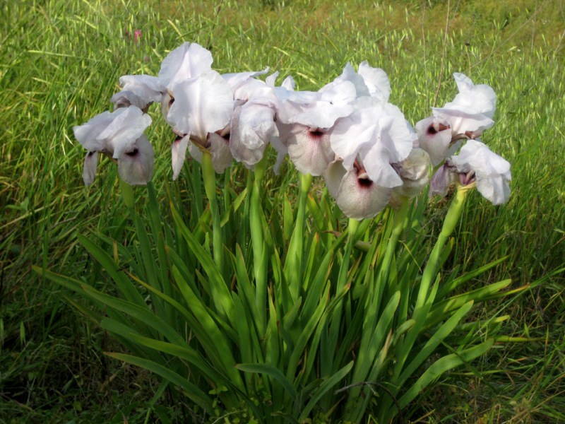 Iris lortetii , Plants of Israel